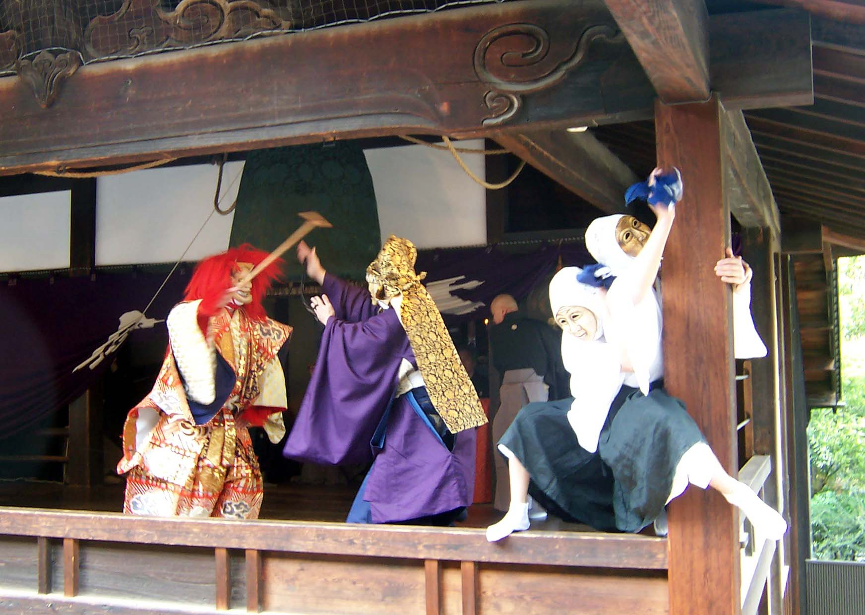 Kyōgen play at Mibu-dera, a buddhist temple in Kyoto, Japan. More detailed description at the source.